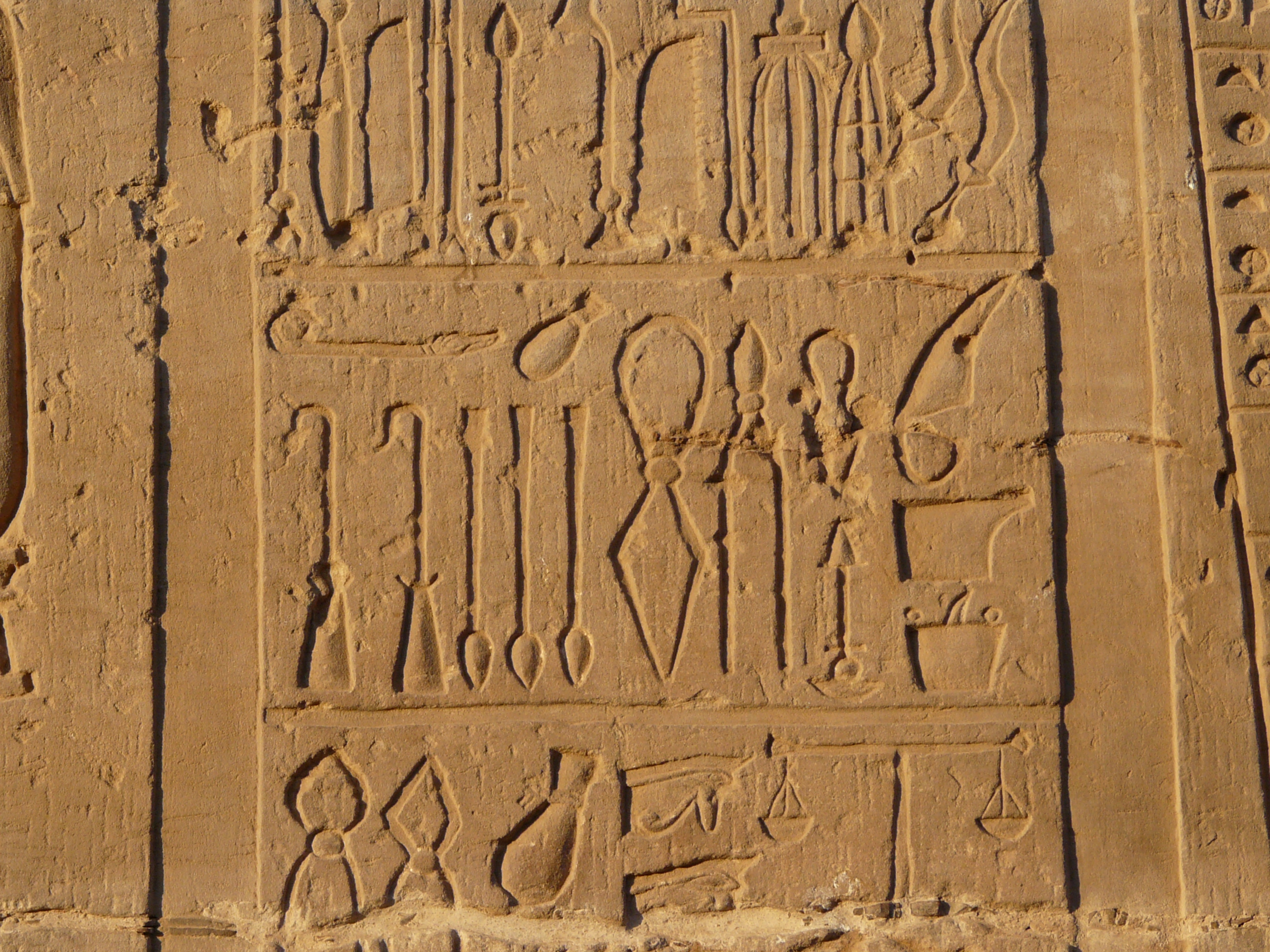 Egypt - Nile cruise